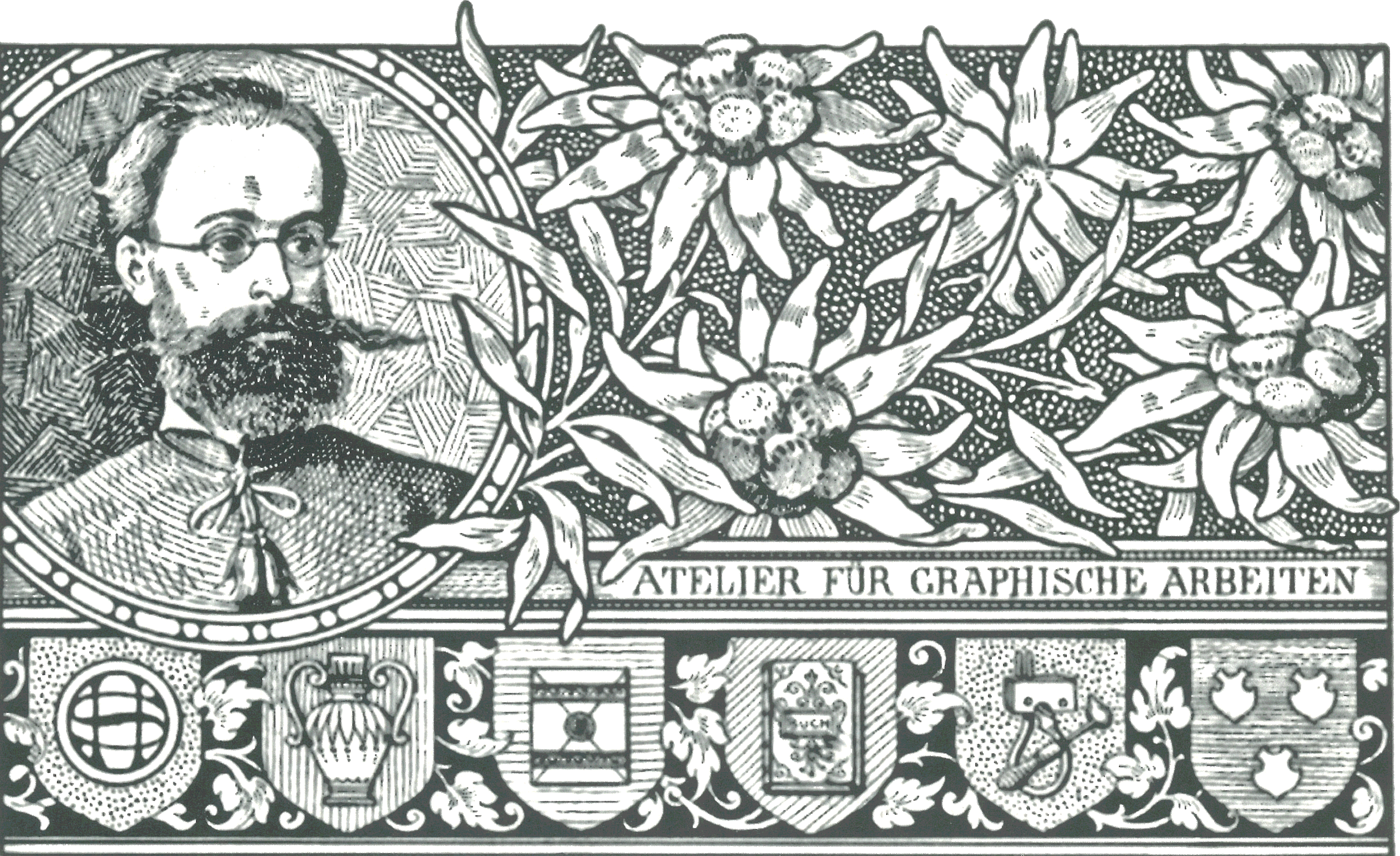 Portrait Hugo Gerard Ströhl (1851–1919)